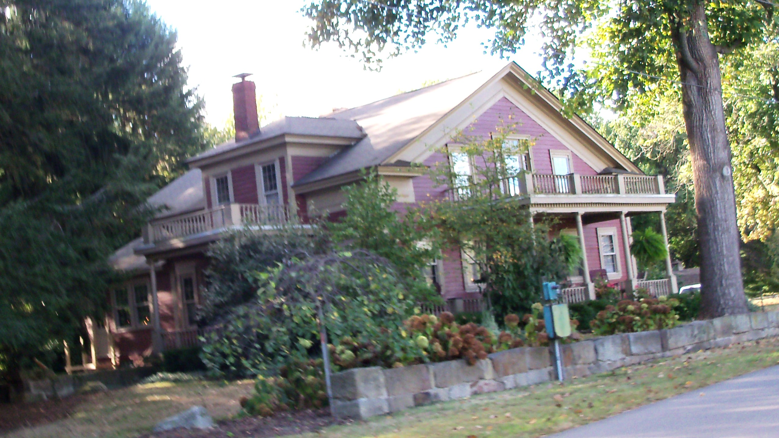 Patrick Hull House, a structure on the National Register of Historic Places in Brown Township, Carroll County, Ohio.